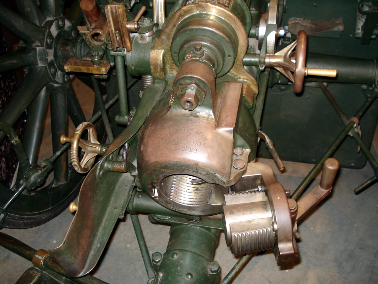 British QF 18 pounder gun at the Canadian War Museum in Ottawa.